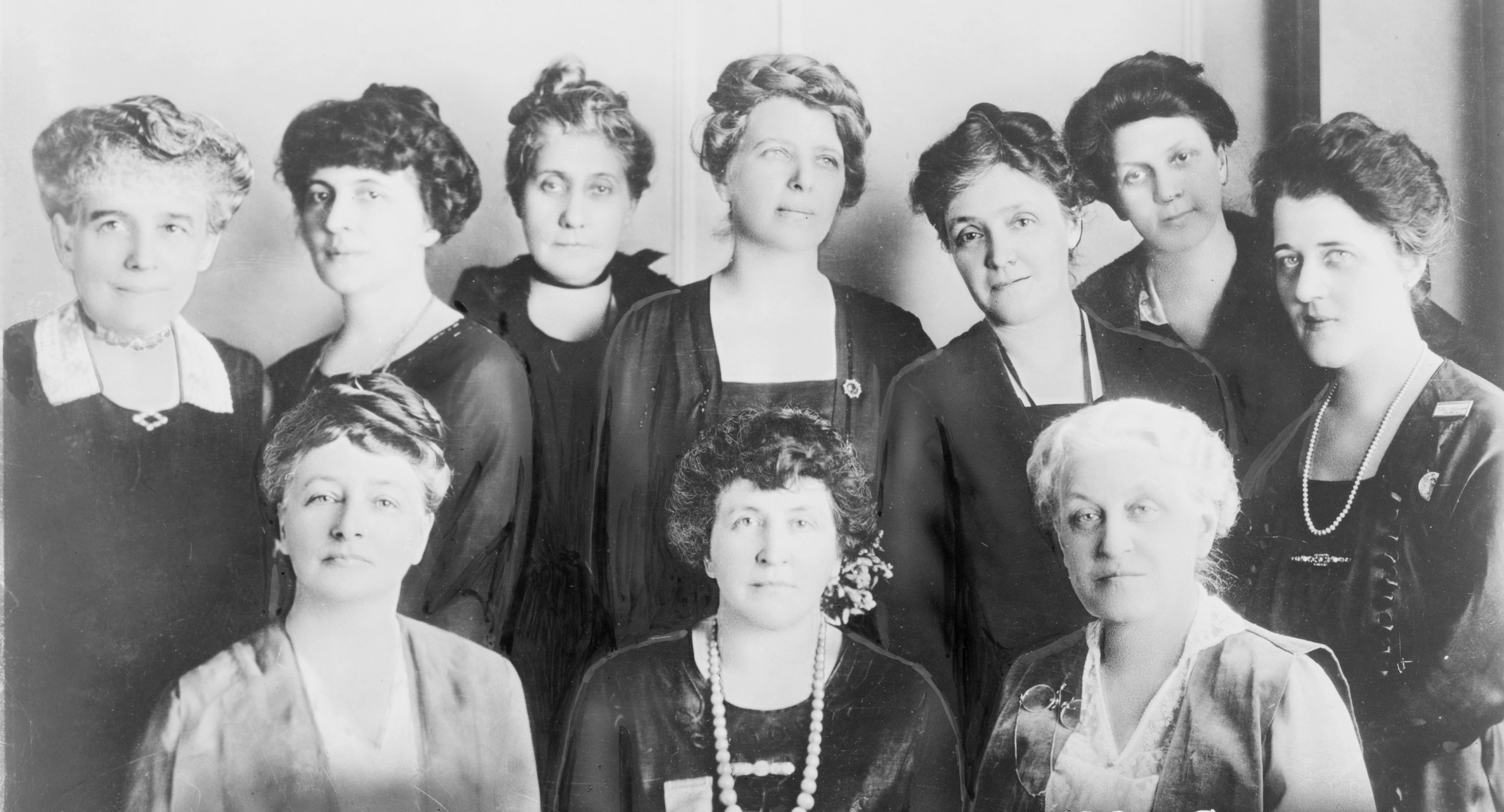 Title: Board of Directors National League of Women Voters--Chicago Convention, February 1920 Abstract/medium: 1 photographic print.